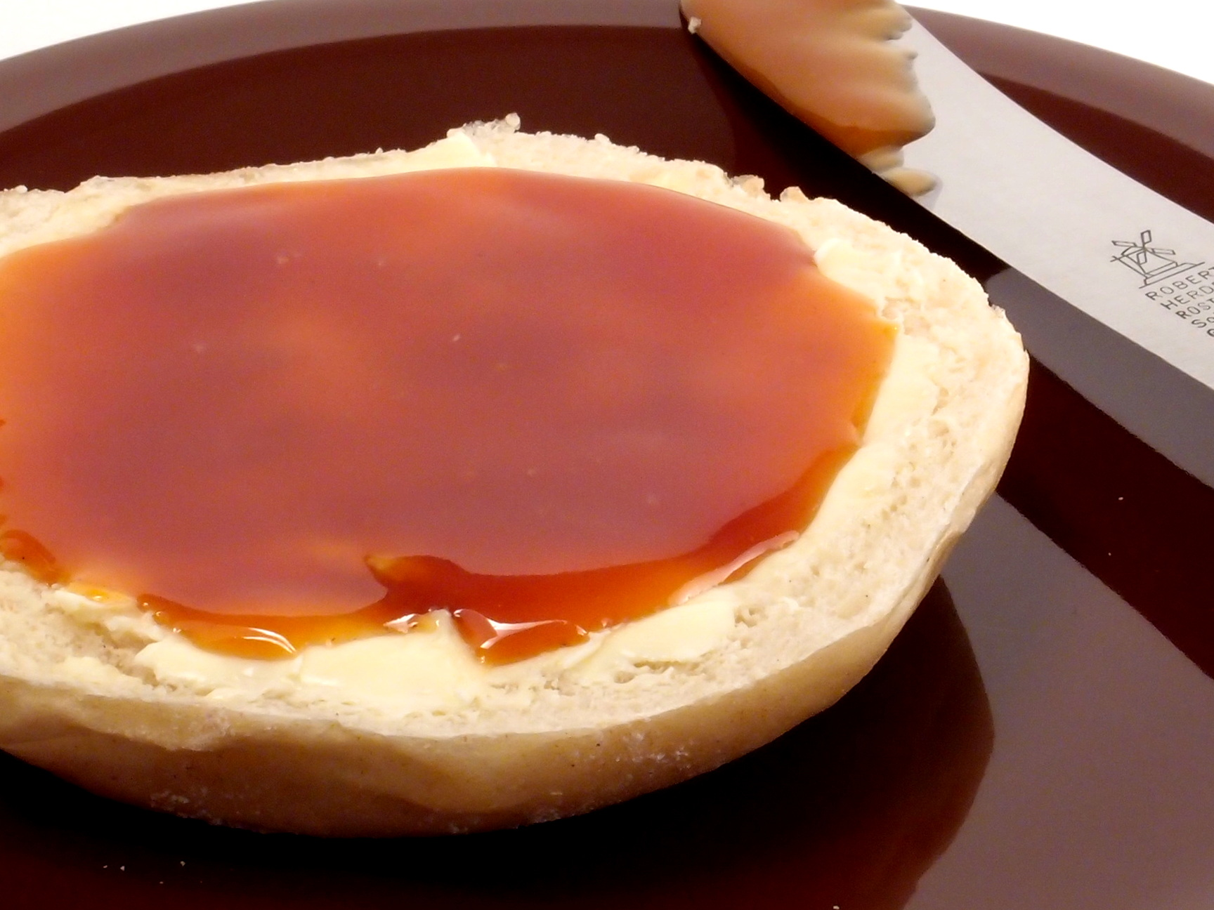 Rose hip jam spread on a buttered bread roll.